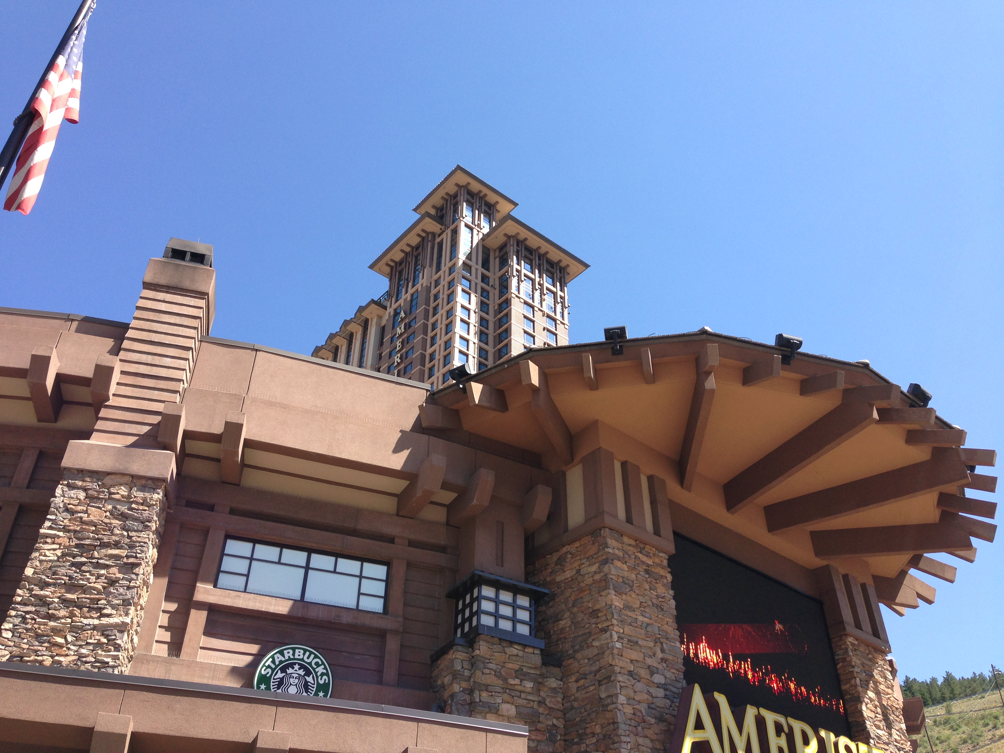 The Ameristar Casino in Black Hawk, CO, USA. July 2013.